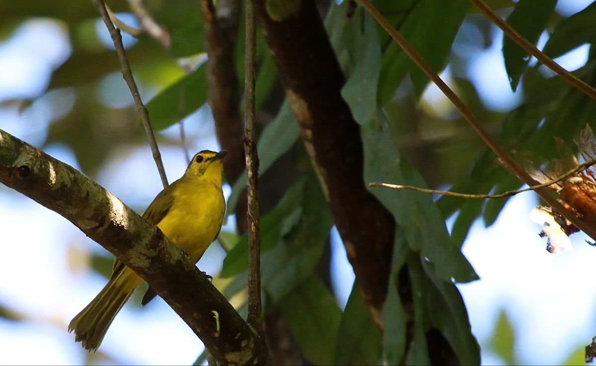 Yellow-browed Bulbul in Bodhinagala Forest Reserve, Sri Lanka.